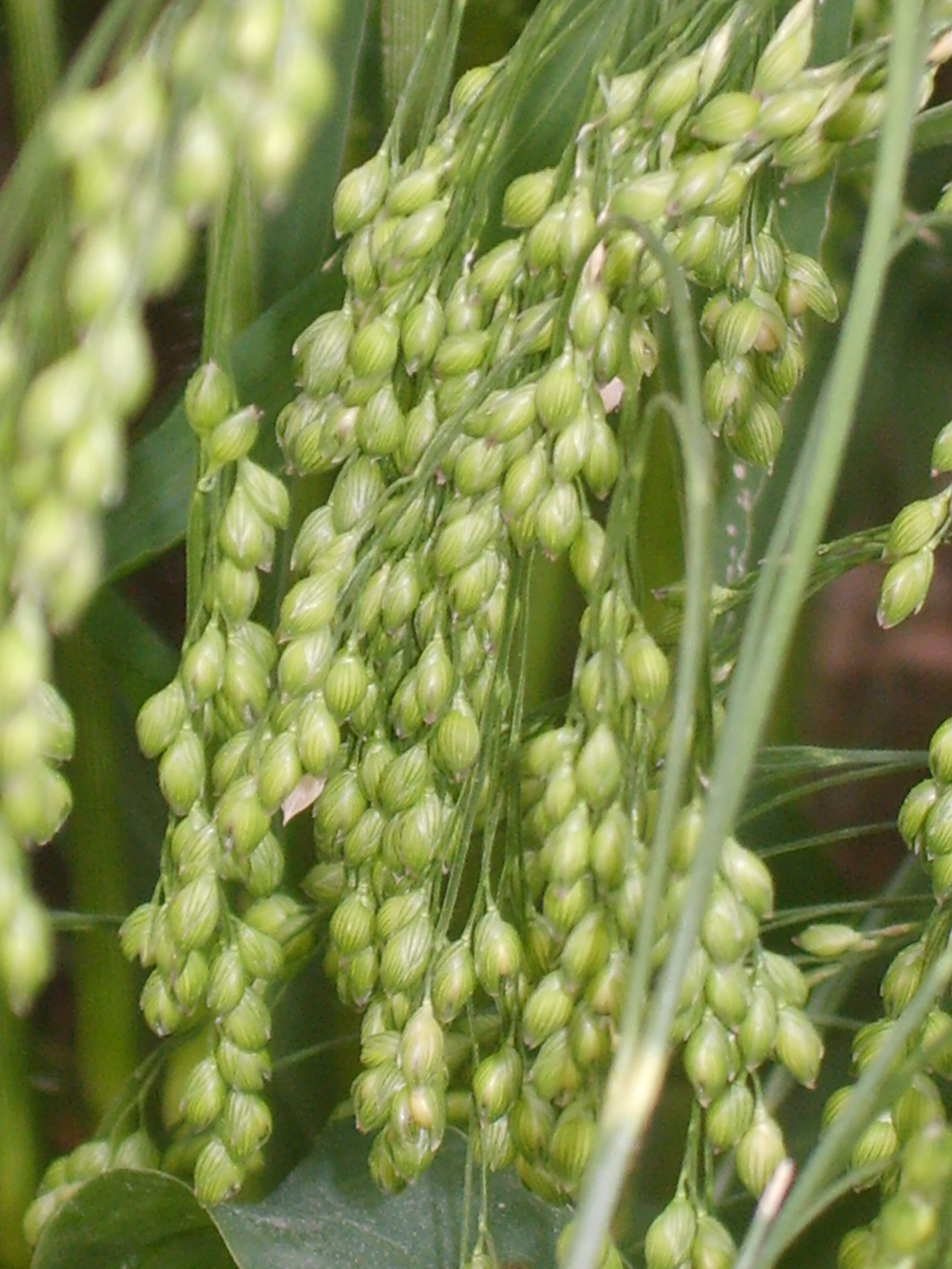 Panicum miliaceum